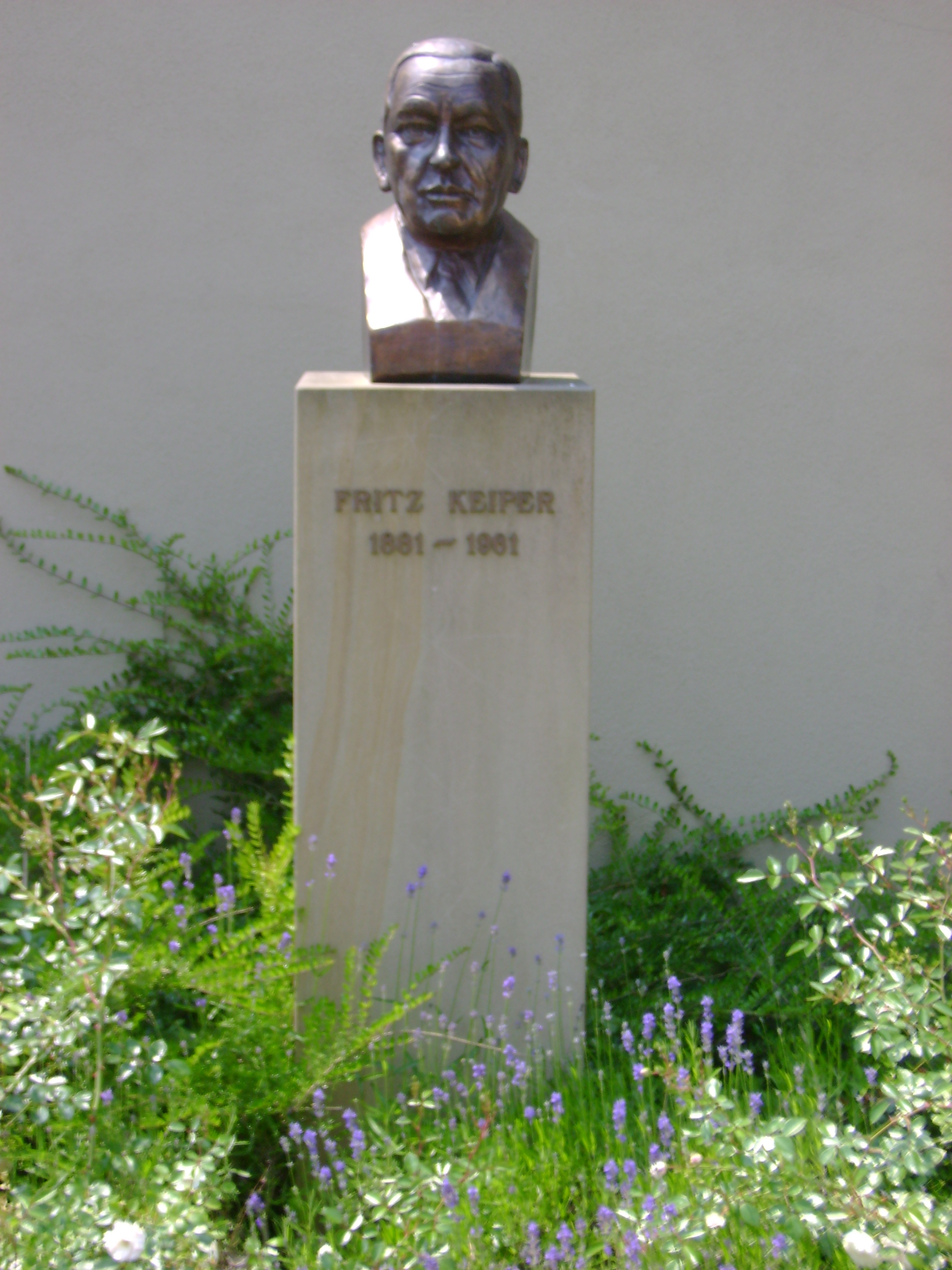 Bust of Fritz Keiper, Obermoschel, Germany.